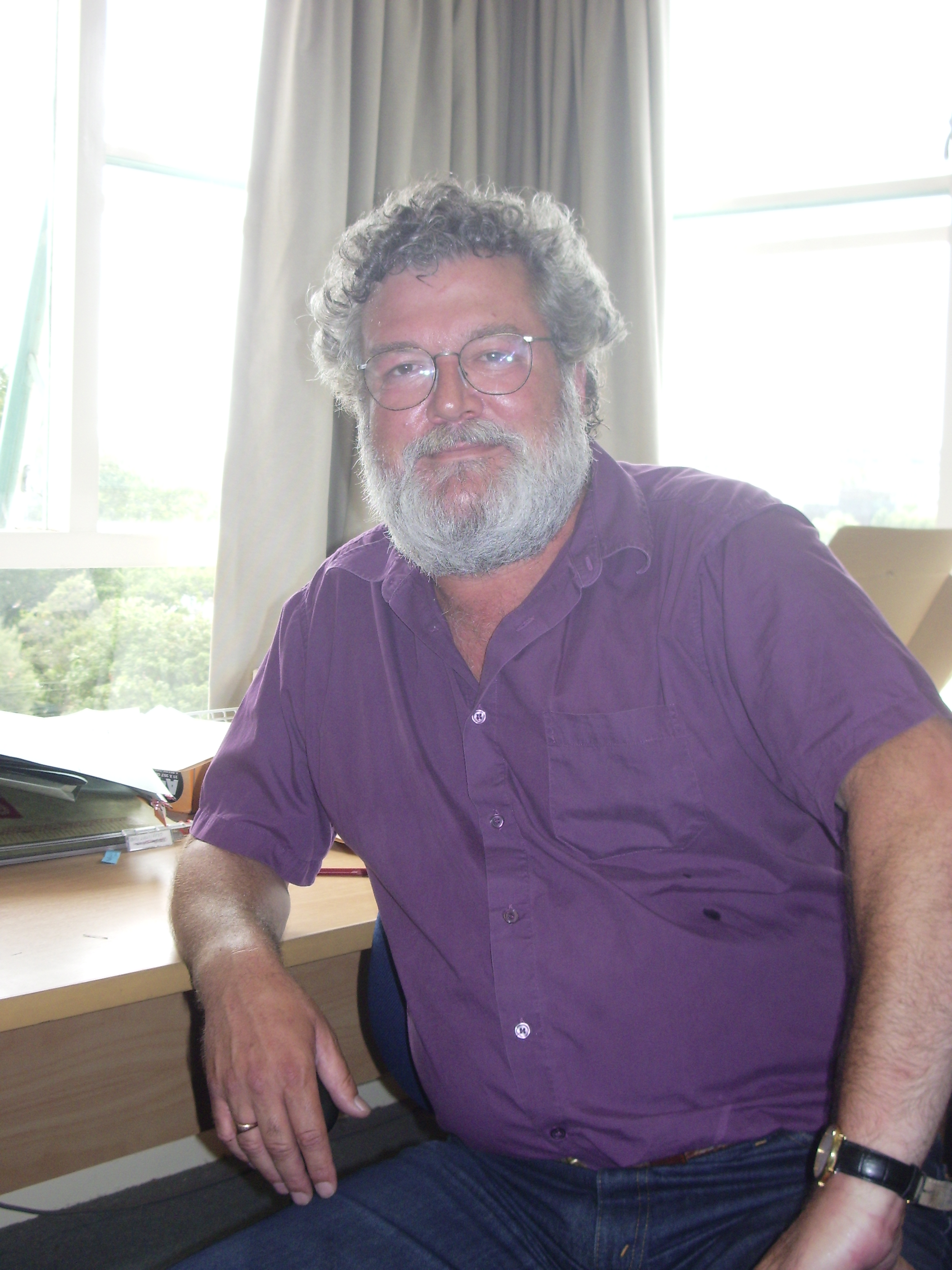 Photograph of New Zealand historian James Belich, taken in his office at the University of Auckland, room 44, 7 Wynard Street.